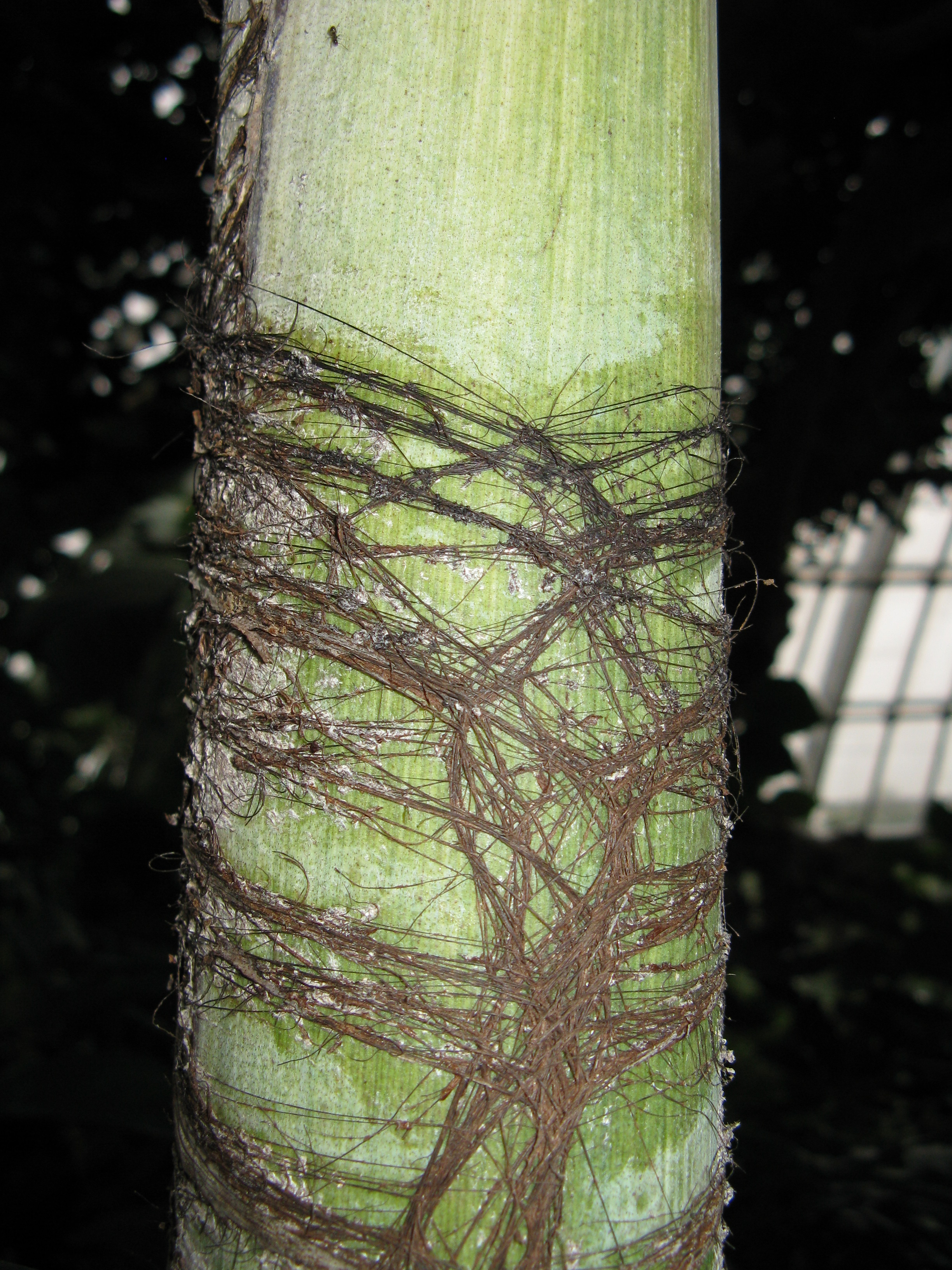 Scientific name Caryota mitis